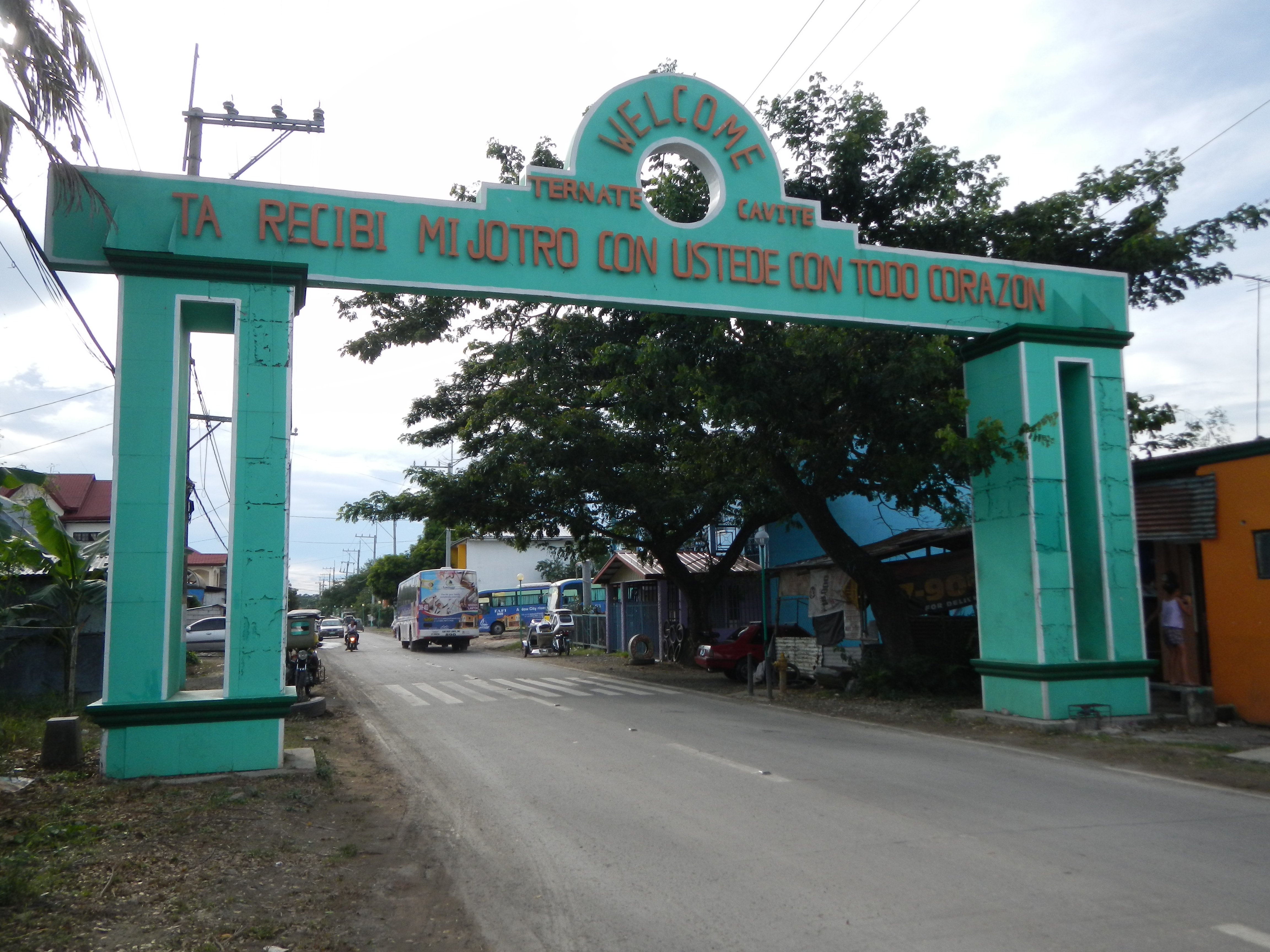 Boundary (Barangays of both Ternate and Magondon, Cavite) Welcome Arch of Ternate, Cavite[1] & Maragondon, Cavite [2] - at National Highway - Governor's Drive[3] - Ternate, Cavite[4] Website tuloy tuloy lang po sa bayan ng ternate chavacanos[5] Coordinates: 14°16'13"N 120°41'10"E - Kumusta ka na kabayan at Kaibigan! town proper of Ternate. Aquino woos Caviteños, raves over ‘tourism road’ Friday, April 5th, 2013 Ternate Ternate-Nasugbu (aka Kaybiang) Tunnel: The Longest Underground Road Tunnel in the Philippines March 22, 2013.